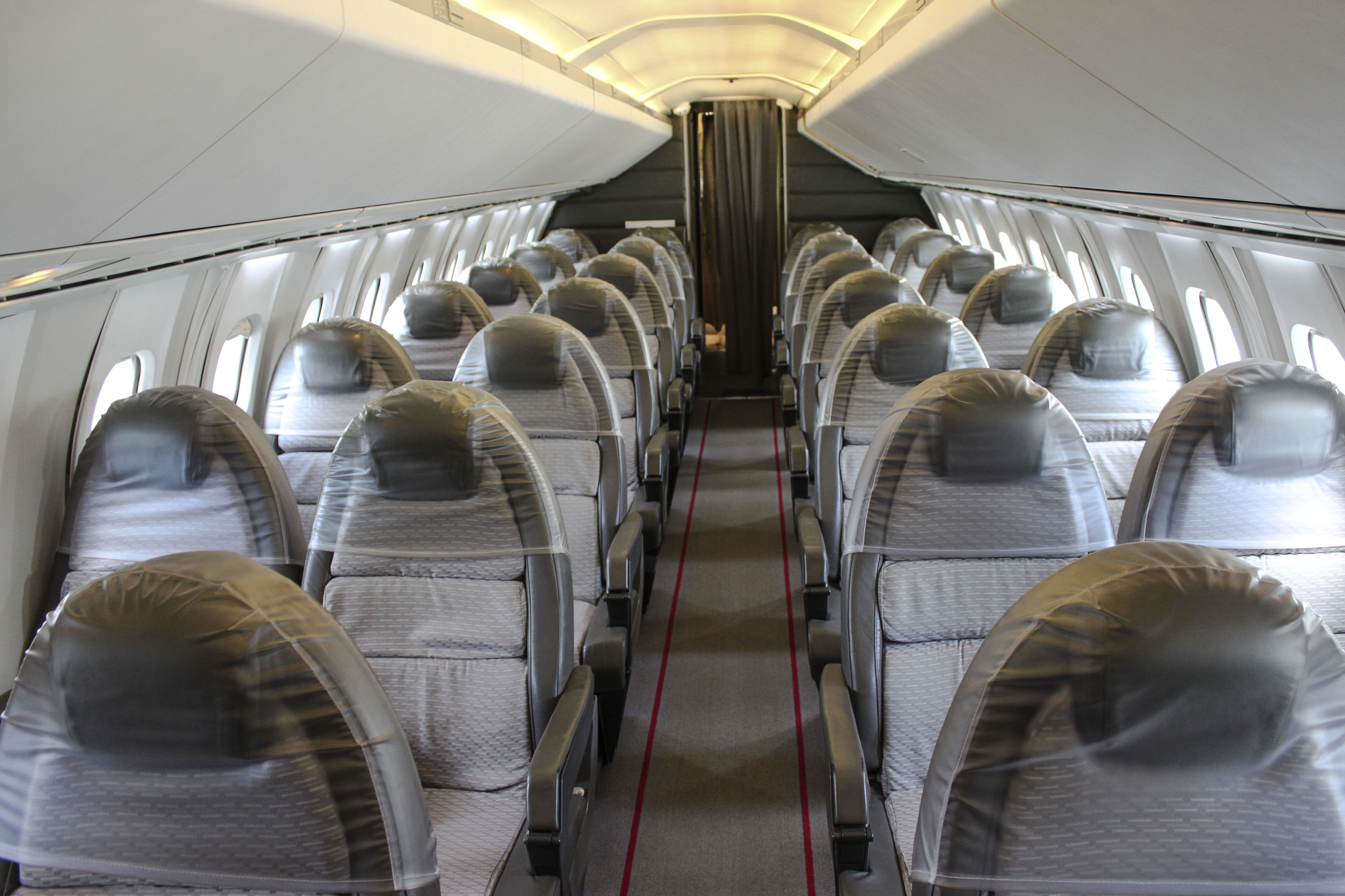 Concorde G-BBDG